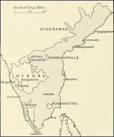 Madras Presidency, Coorg and associated states